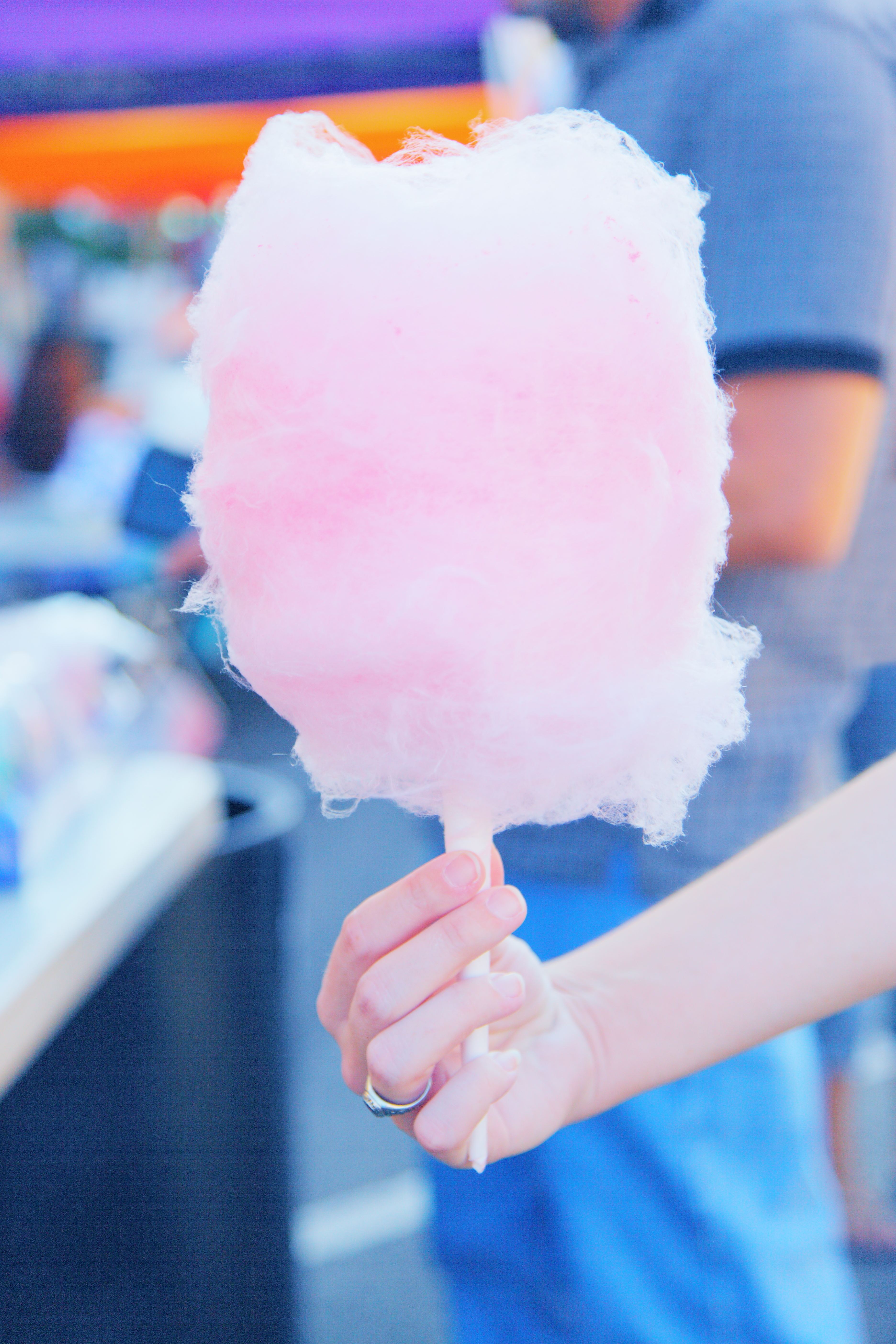 Pink Poppy Photography is all about sharing love, peace and happiness through free creative commons licensed imagery. Please help by spreading the word about my free images, available to everyone! My name is Poppy Thomas-Hill (pen name). I am a professional stock photographer and artist. All of my my creative commons licensed images are available for free. My images can be used on websites, in magazines, book covers, class projects, powerpoint presentations, publications, media, news, editorial use, product packaging, print, and more. Please be kind when using my images. If you think the useage may be questionable, you're probably right. If it wouldn't make your grandmother happy, don't do it. Karma always comes back around, good and bad. Please respect my work. In exchange for the free use of my images, I require photo copyright credits be given to me as "Poppy Thomas-Hill". A link back to my Flickr photos is always appreciated, but not required.